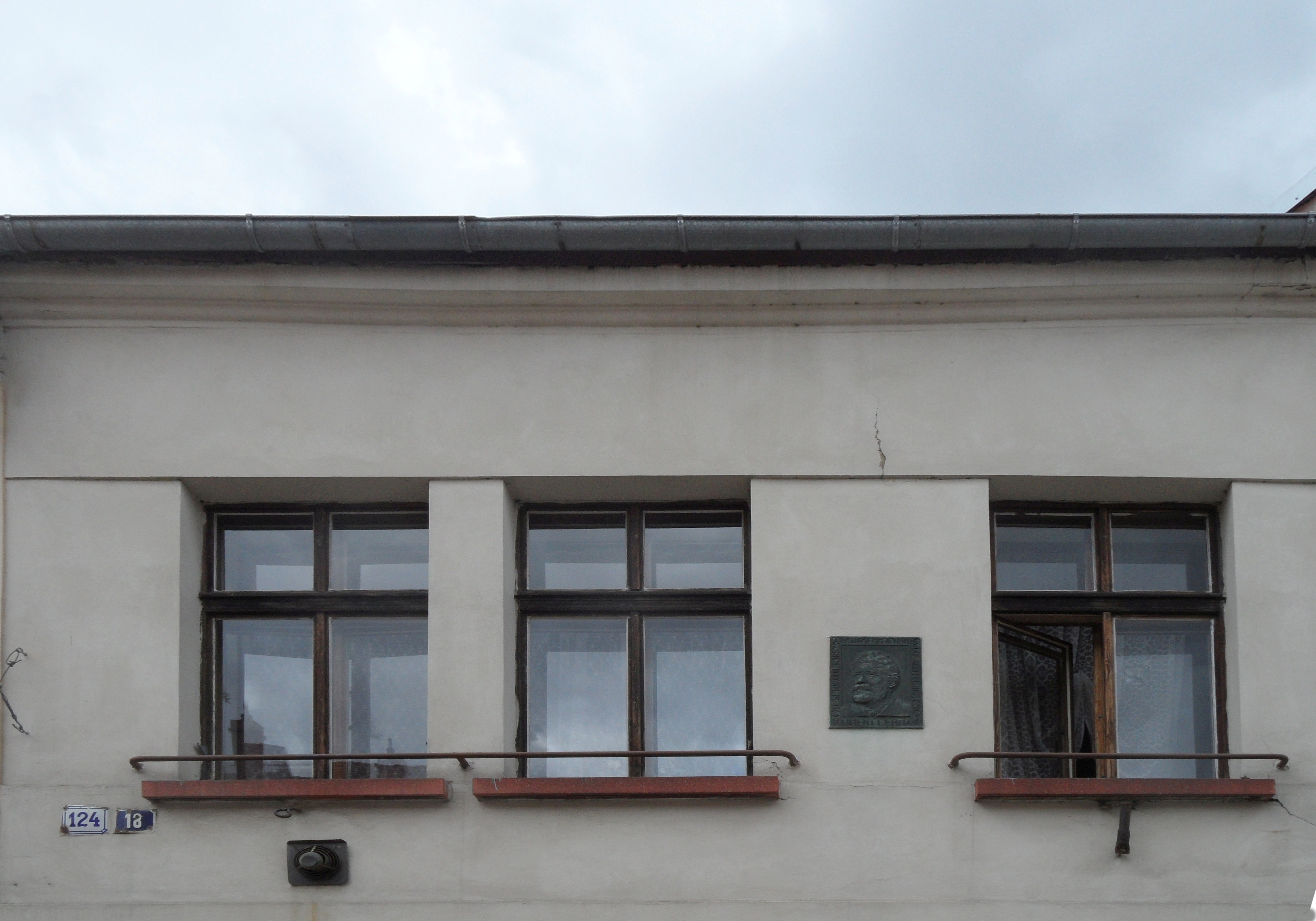 Čáslav, archeologist, numismatist, writer Kliment Čermák: Birthplace with Memorial Plaque (now Klimenta Čermáka 124/18). Kutná Hora District, the Czech Republic.